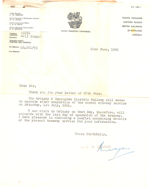 Grimsby & Immingham Electric Railway - letter to G Skelsey